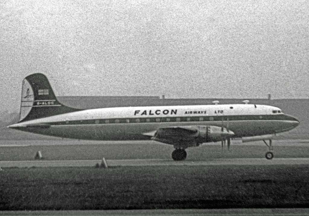 Handley Page HP.81 Hermes 4 G-ALDC of Falcon Airway Limited at Manchester Airport in 1960